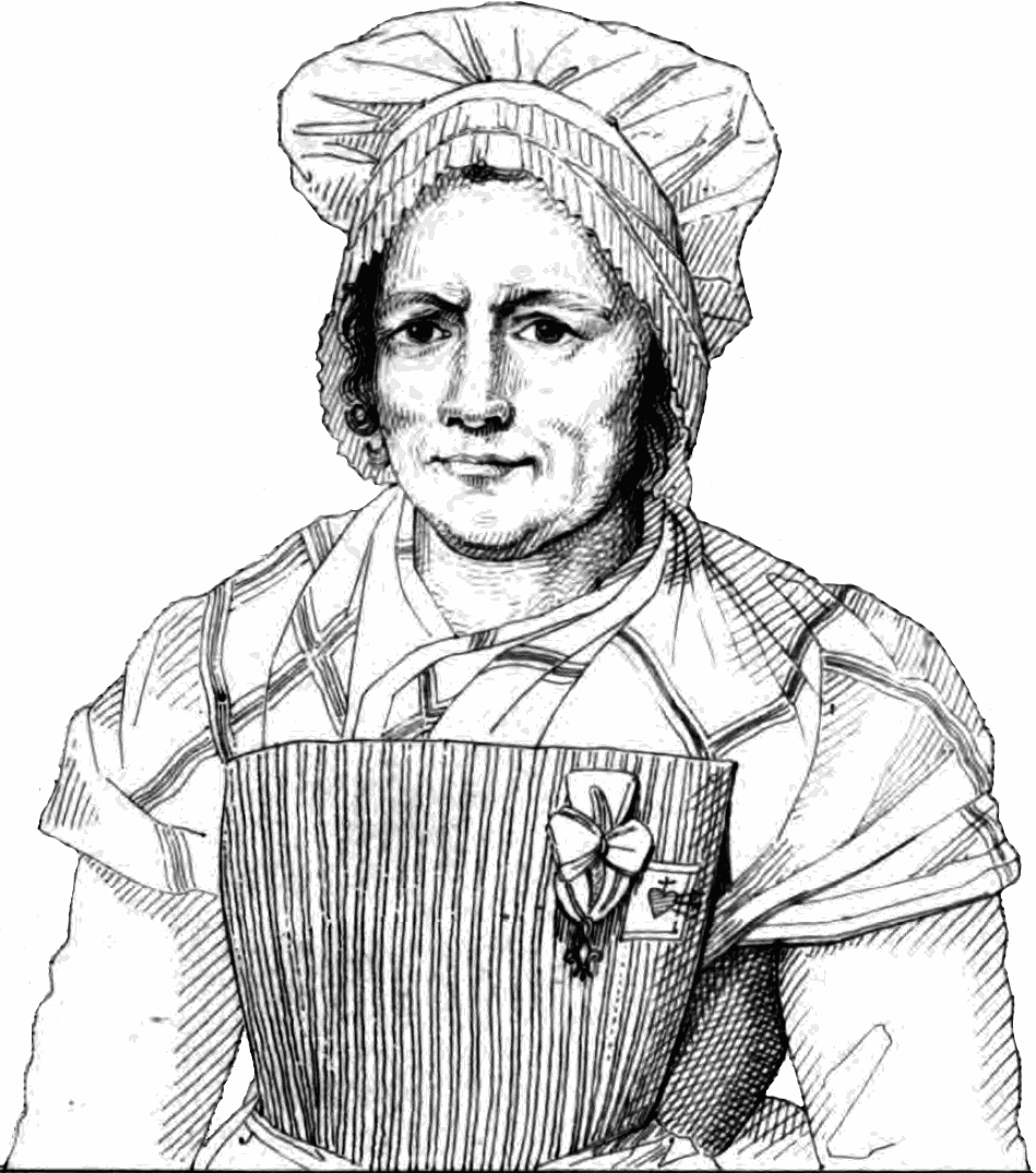 Renée Bordereau, called Langevin. Born in Soulaine close to Angers, in June 1770. Copper engraving from her memoirs, published in 1814 edited: cropped, removed horizontal background lines and increased contrast. Original subtitle (no longer included in image) see the French description